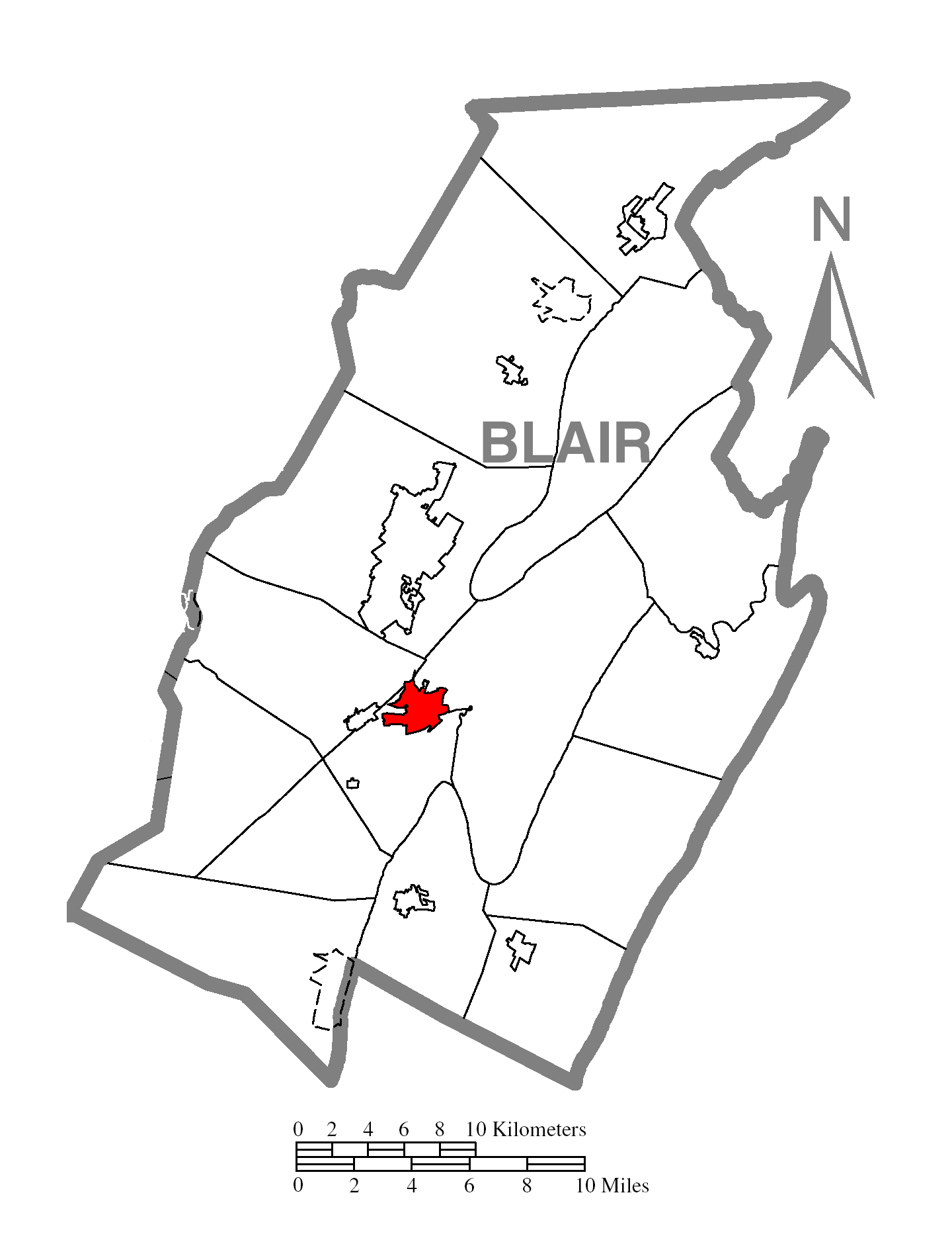 A map of Blair County showing Hollidaysburg, Pennsylvania (alternate) highlighted on the map.